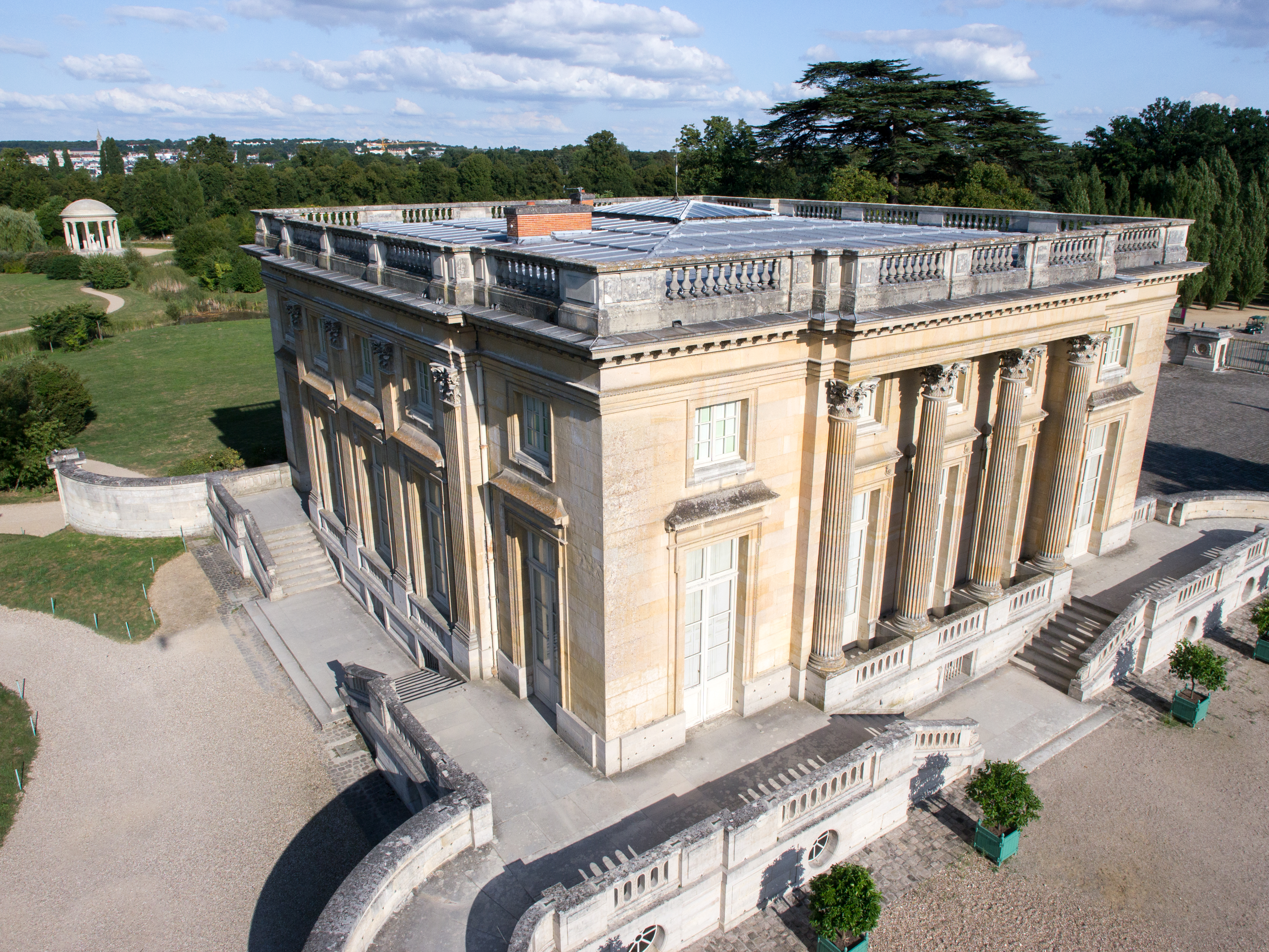 Aerial view of the Petit Trianon, Domain of Versailles, France